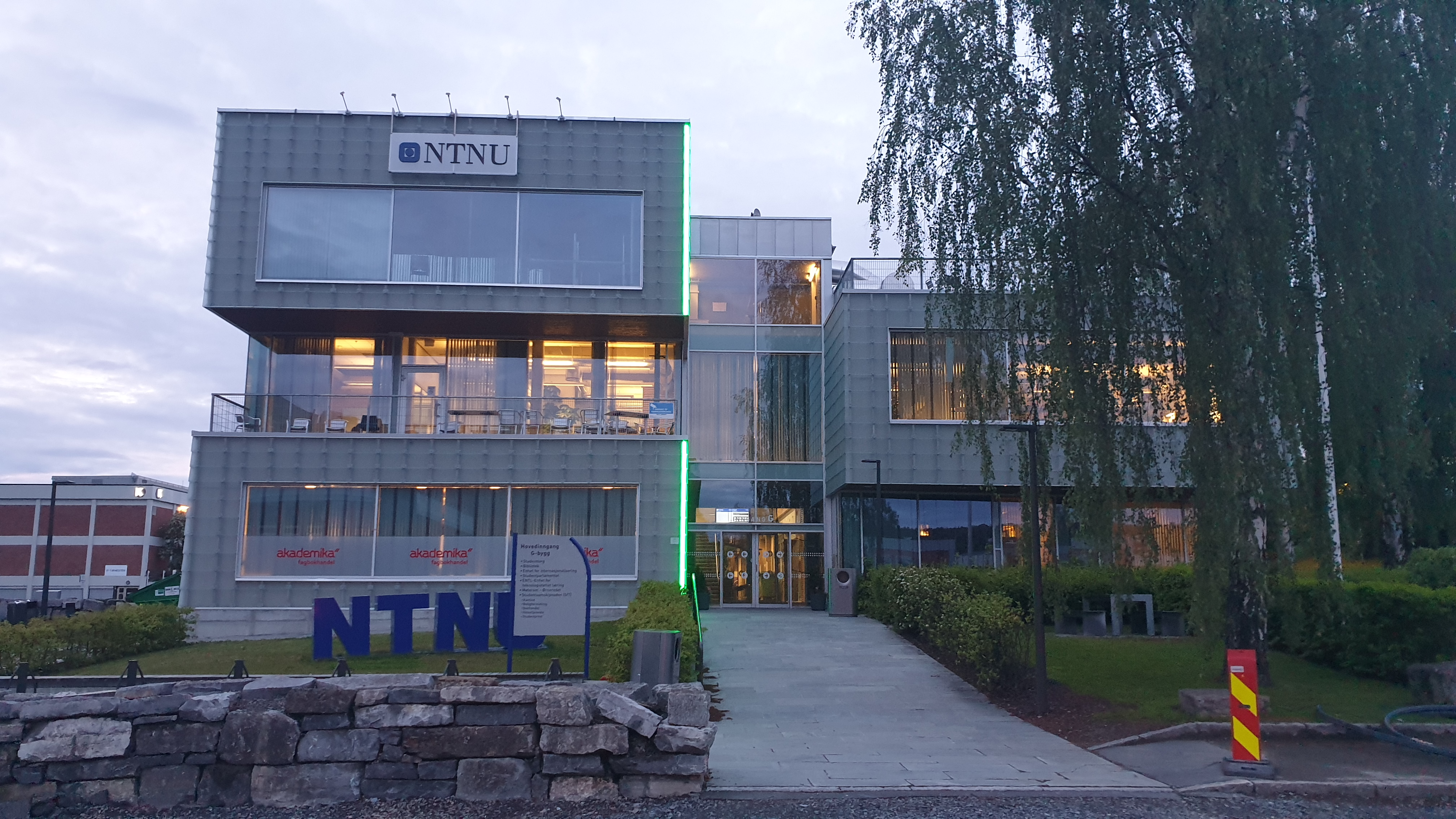 NTNU in Gjøvik main entrance